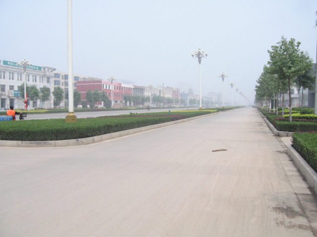 No one on the street...